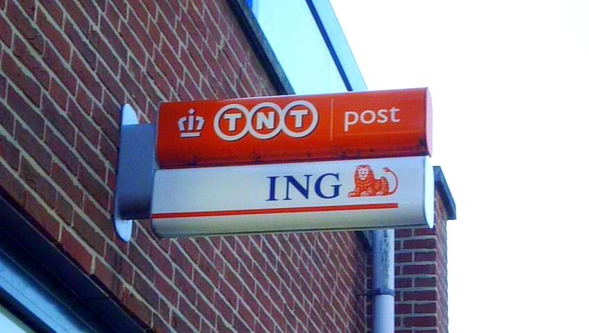 TNT Postoffice in Holland